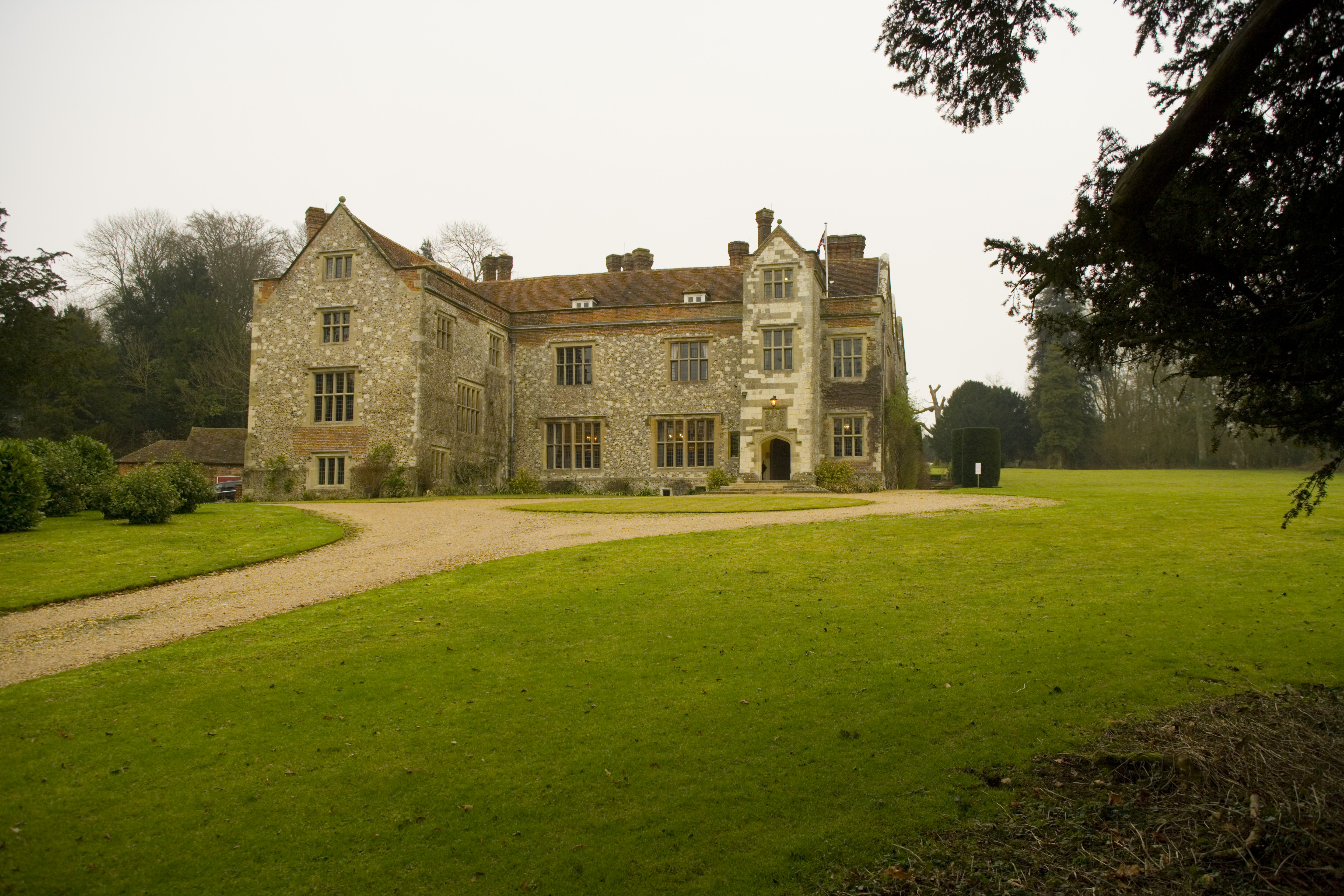 Chawton House Exterior